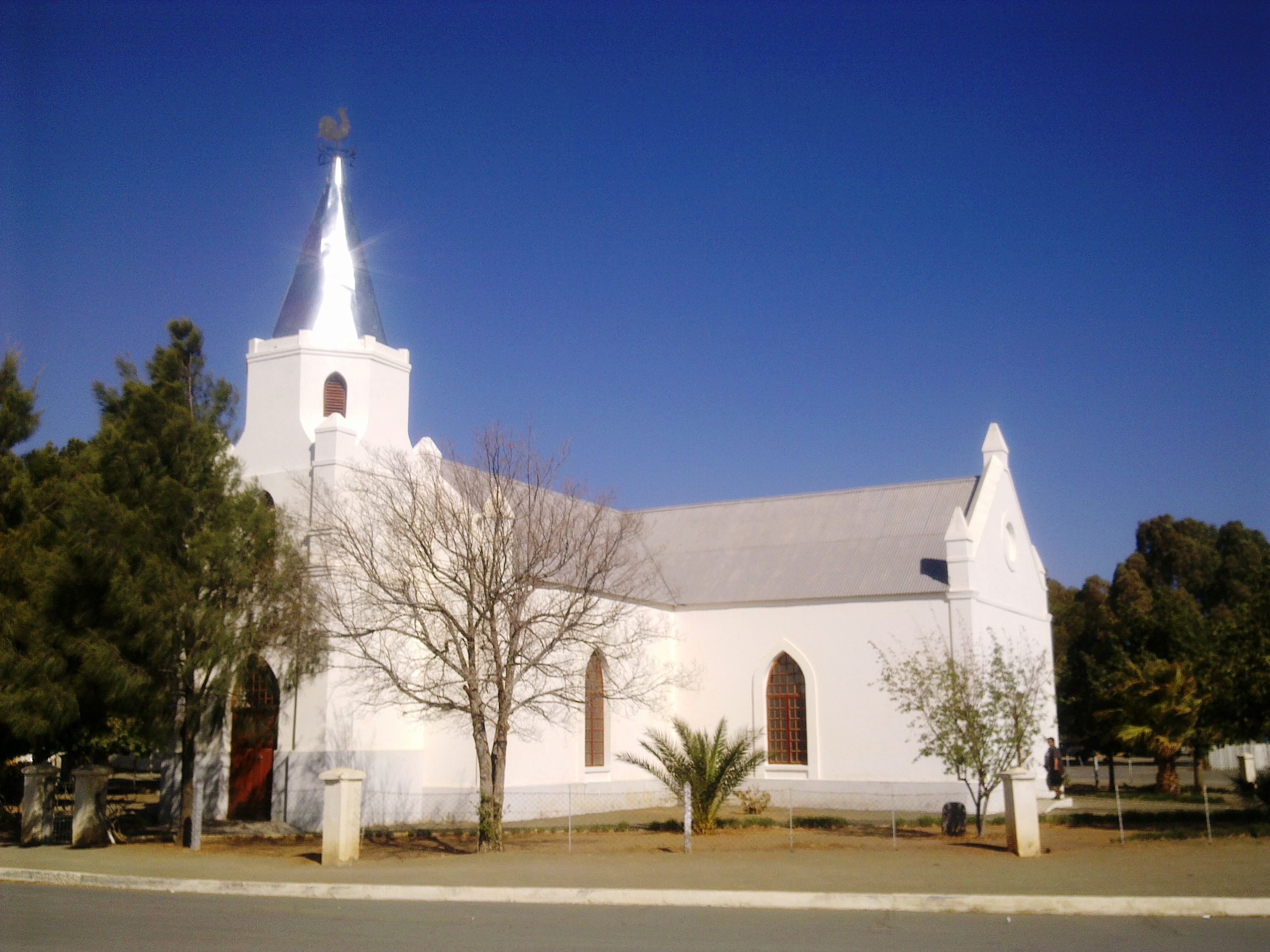 This media shows a South African Protected Site with SAHRA file reference 9/2/019/0003-001.